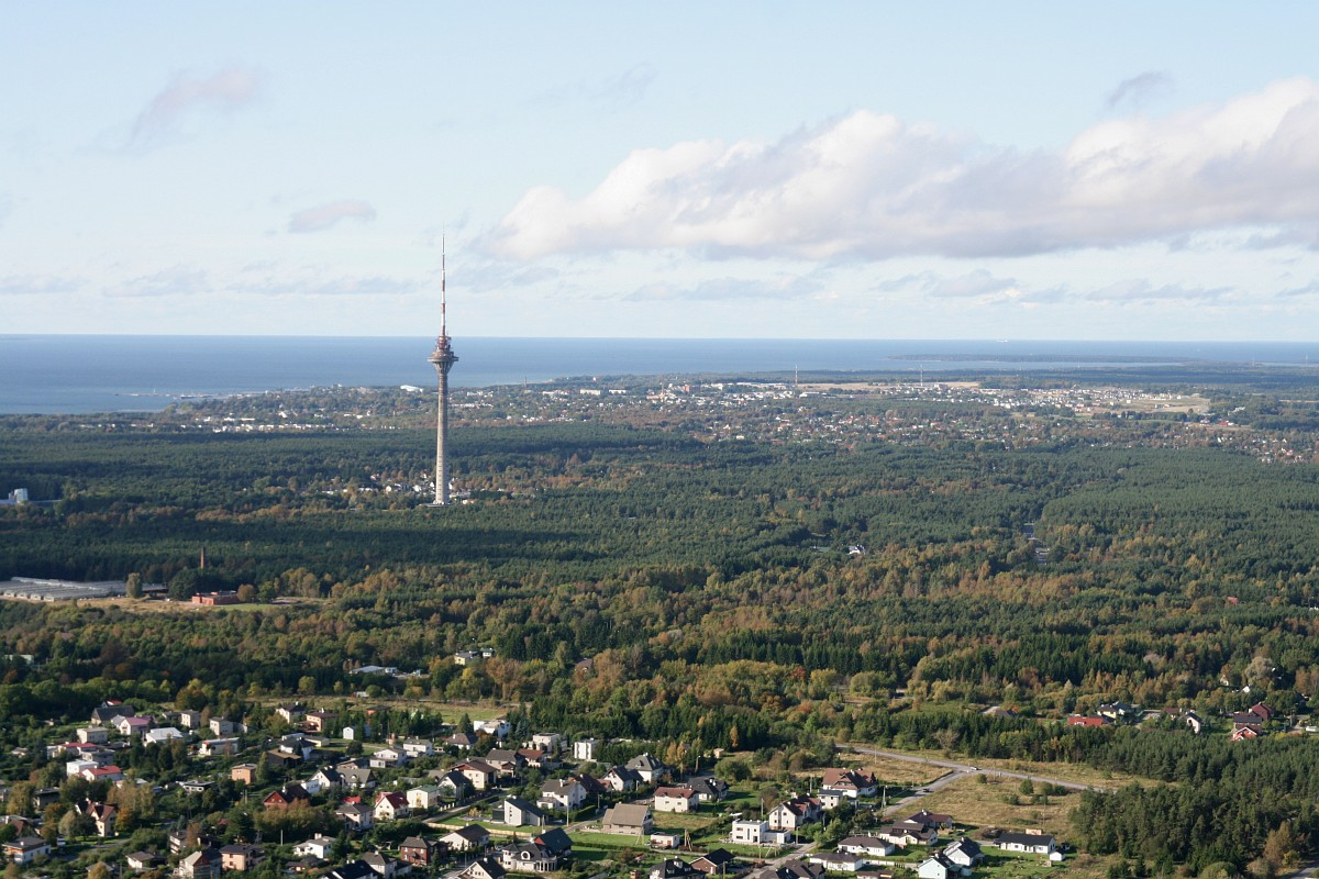 Pirita from altitude 260 meters